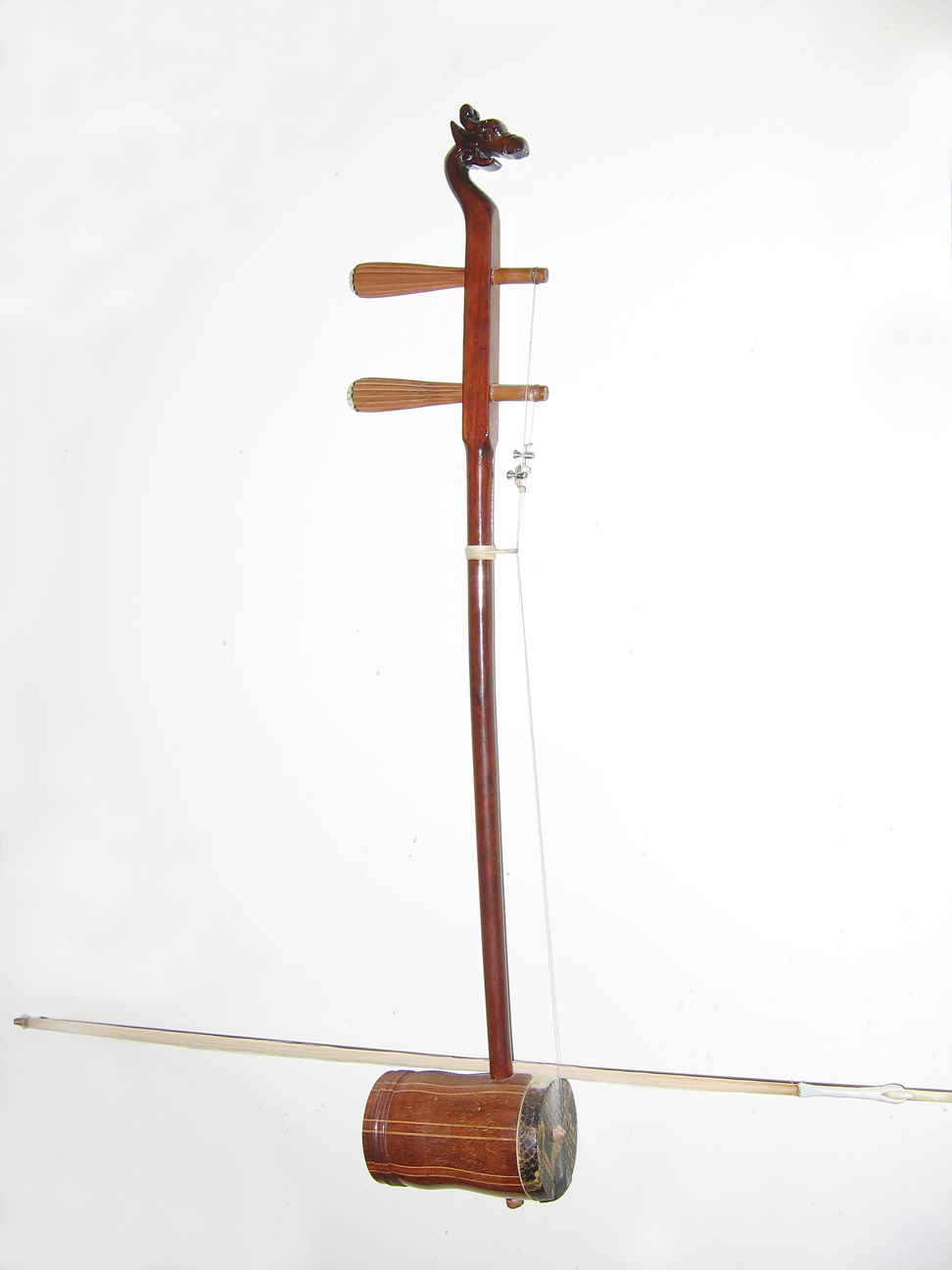 Picture of gaohu.